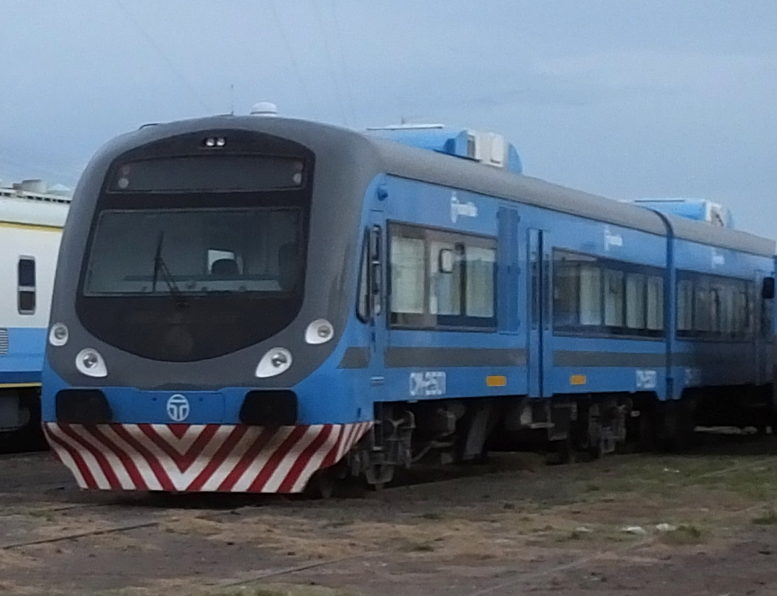 Diesel multiple unit by Materfer, stopped in Bragado station of Buenos Aires Province, Argentina.